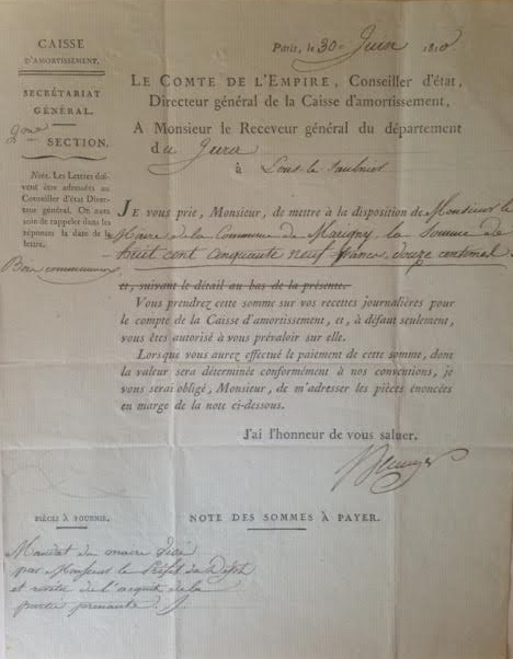 Comte Bérenger (1767-1850), Directeur général de la Caisse d'Amortissement, ancêtre de la Caisse des dépôts et Consignations